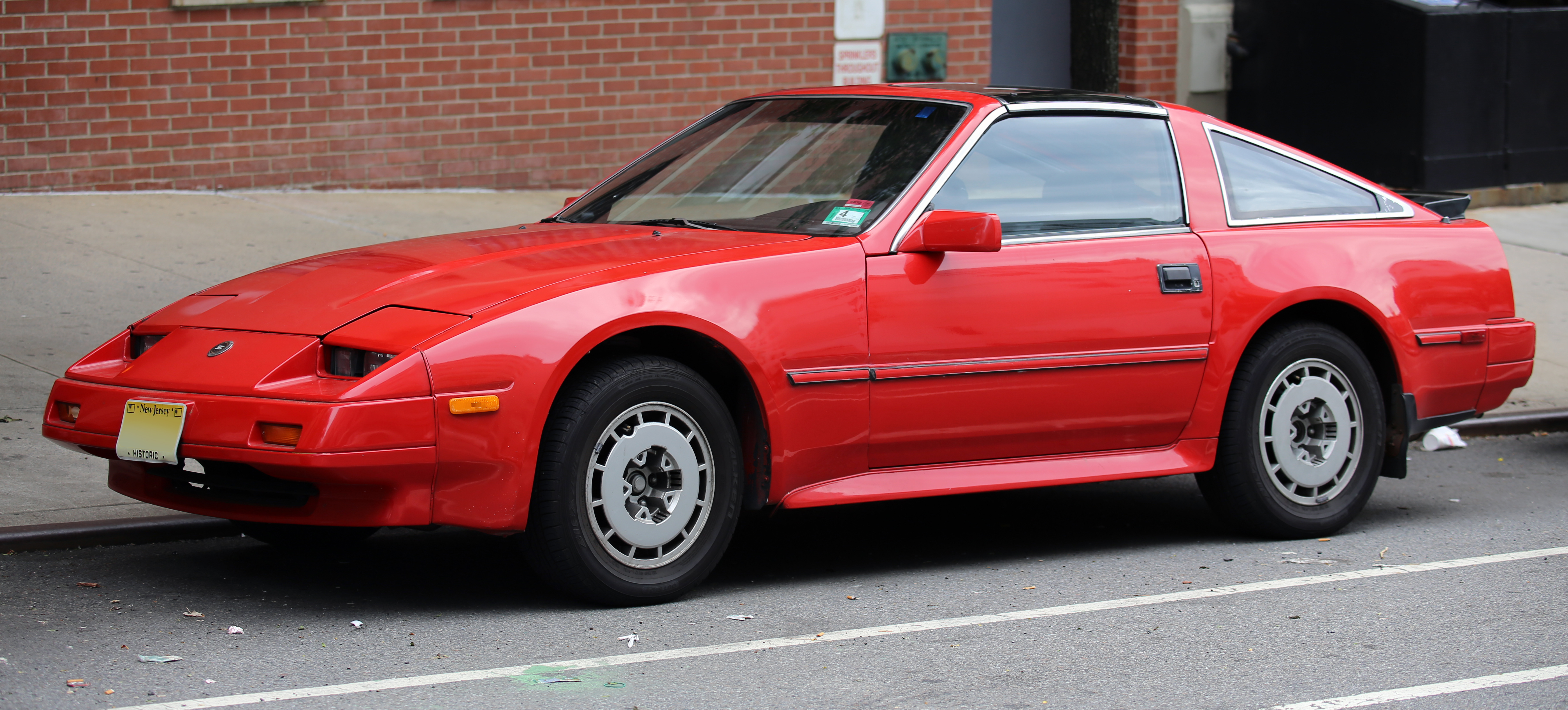 Circa 1989 Nissan 300ZX two-seater, naturally aspirated version.